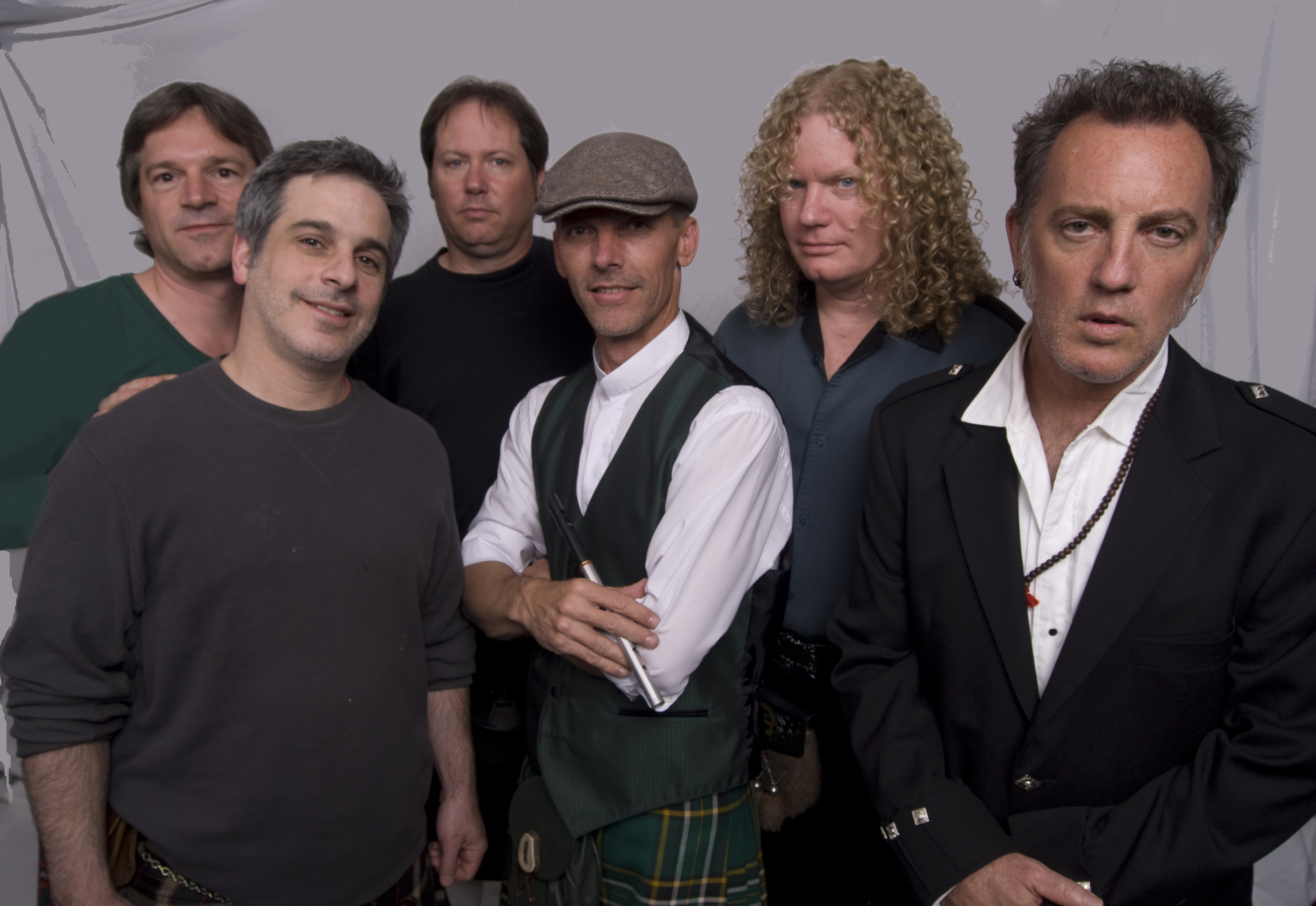 Eric, Billy, Greg, Jimmy, Keith, and Kyf from the Celtic rock band, Barleyjuice.